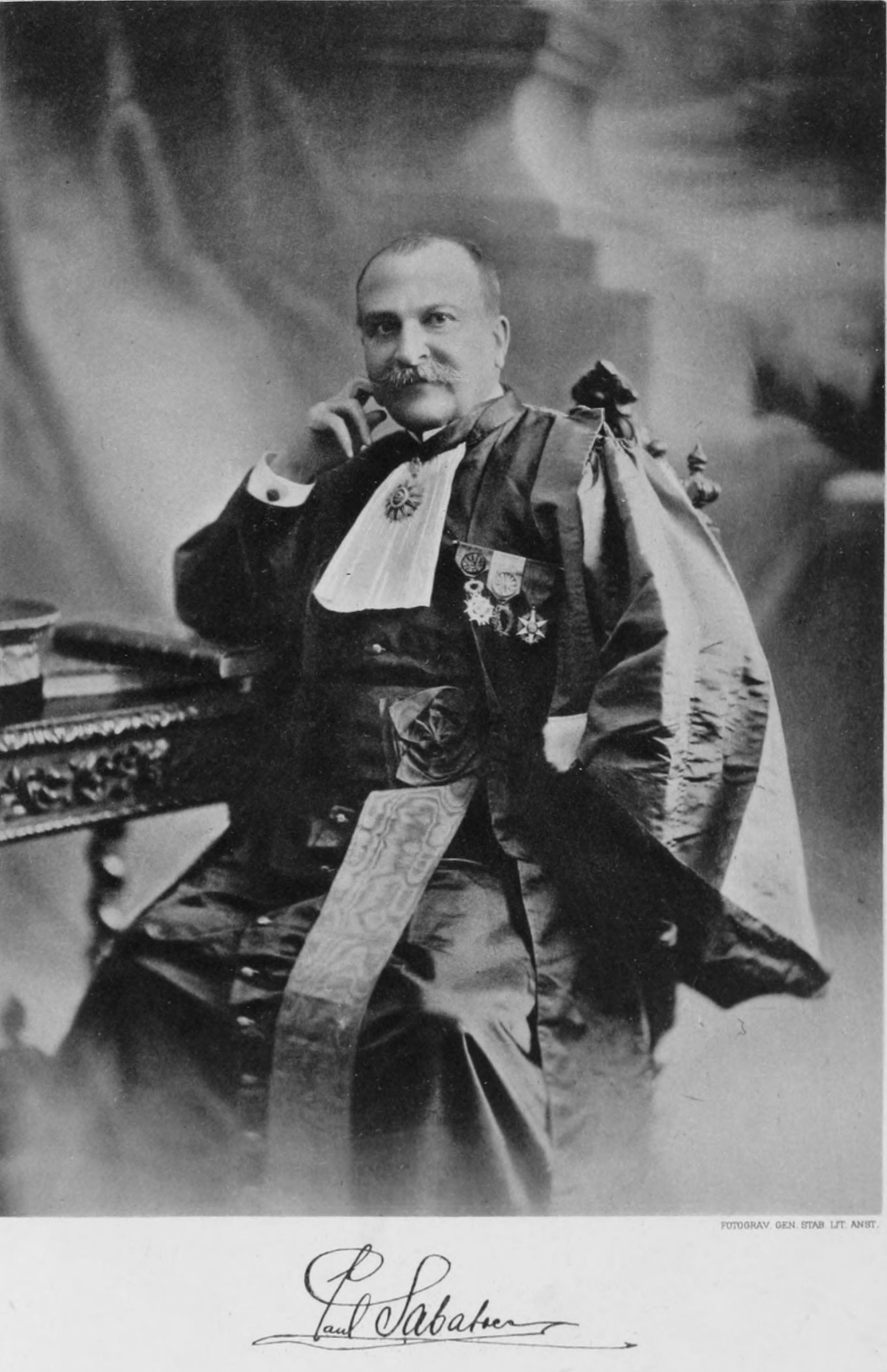 Paul Sabatier, Nobel price of Chemistry (1912) in 1915